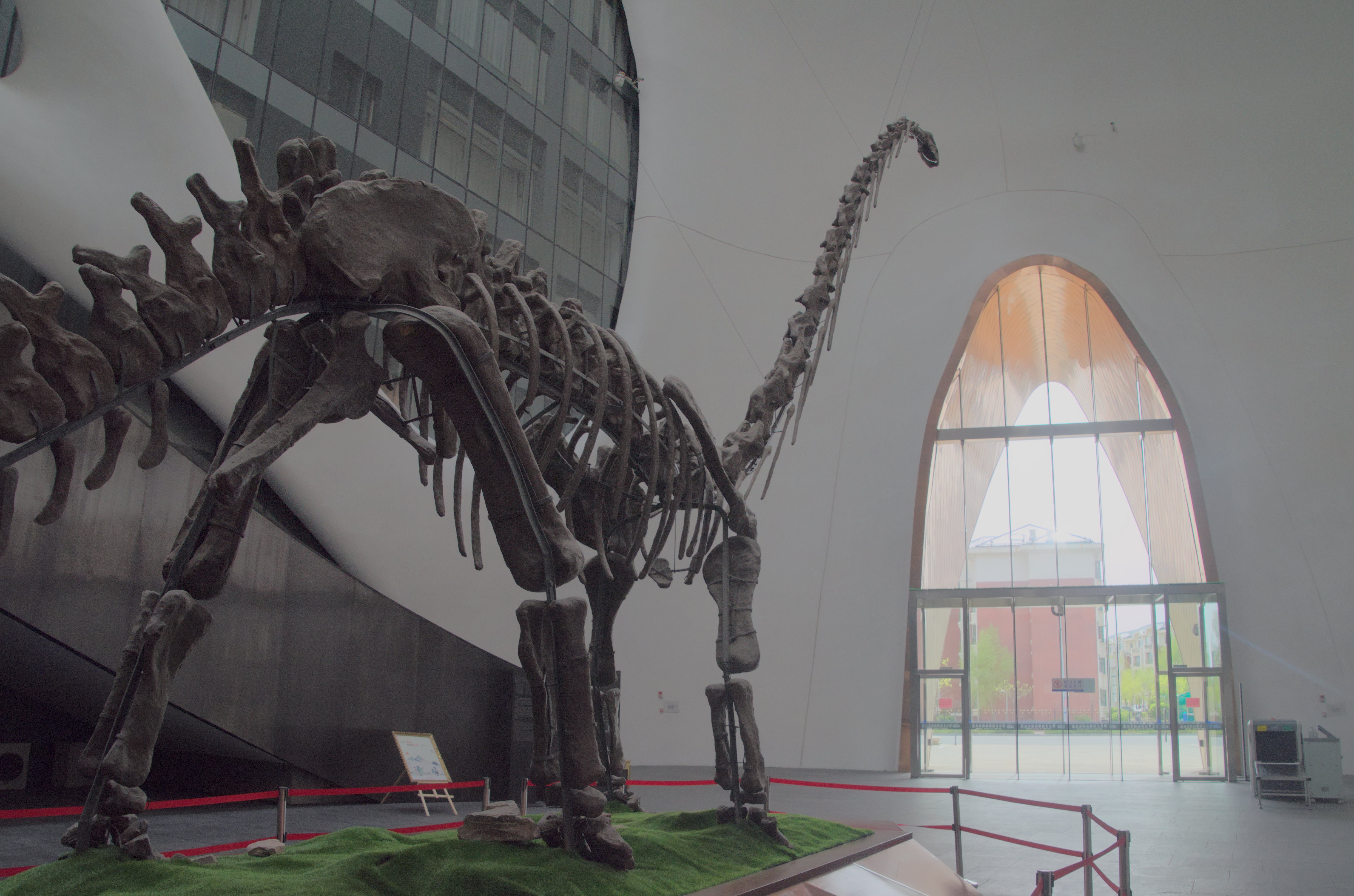 Mamenchisaurus at Ordos Museum, Kang Bashi New Area, Ordos City, Inner Mongolia, China